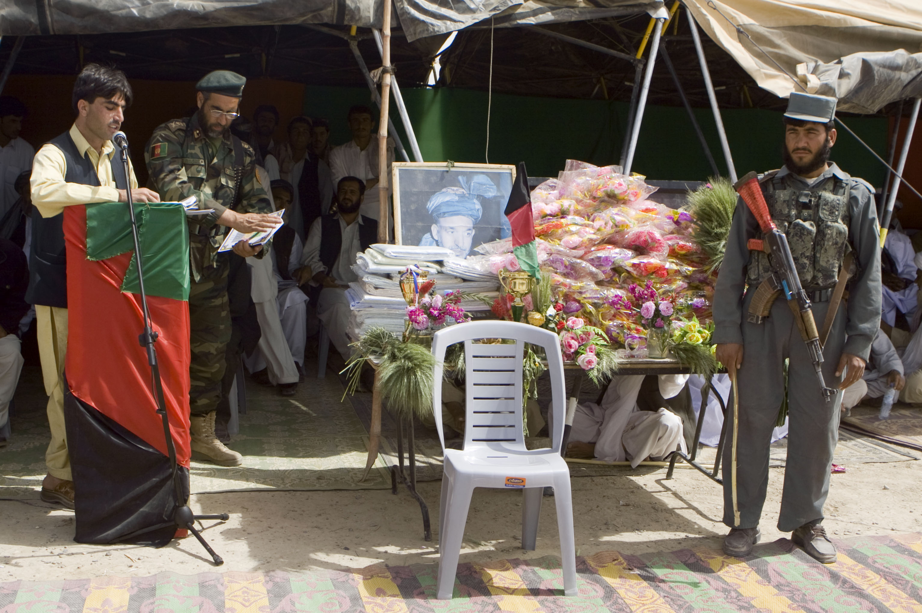 An announcer narrates to a crowd of nearly 1,000 Nawa citizens as an Afghan national police officer stands guard during a Islamic New Year celebration at Nawa's open-air bazaar March 21. The event was the first time in years the holiday has been publicly celebrated in Nawa since Marines and Afghan forces flushed the Taliban from the area last July.